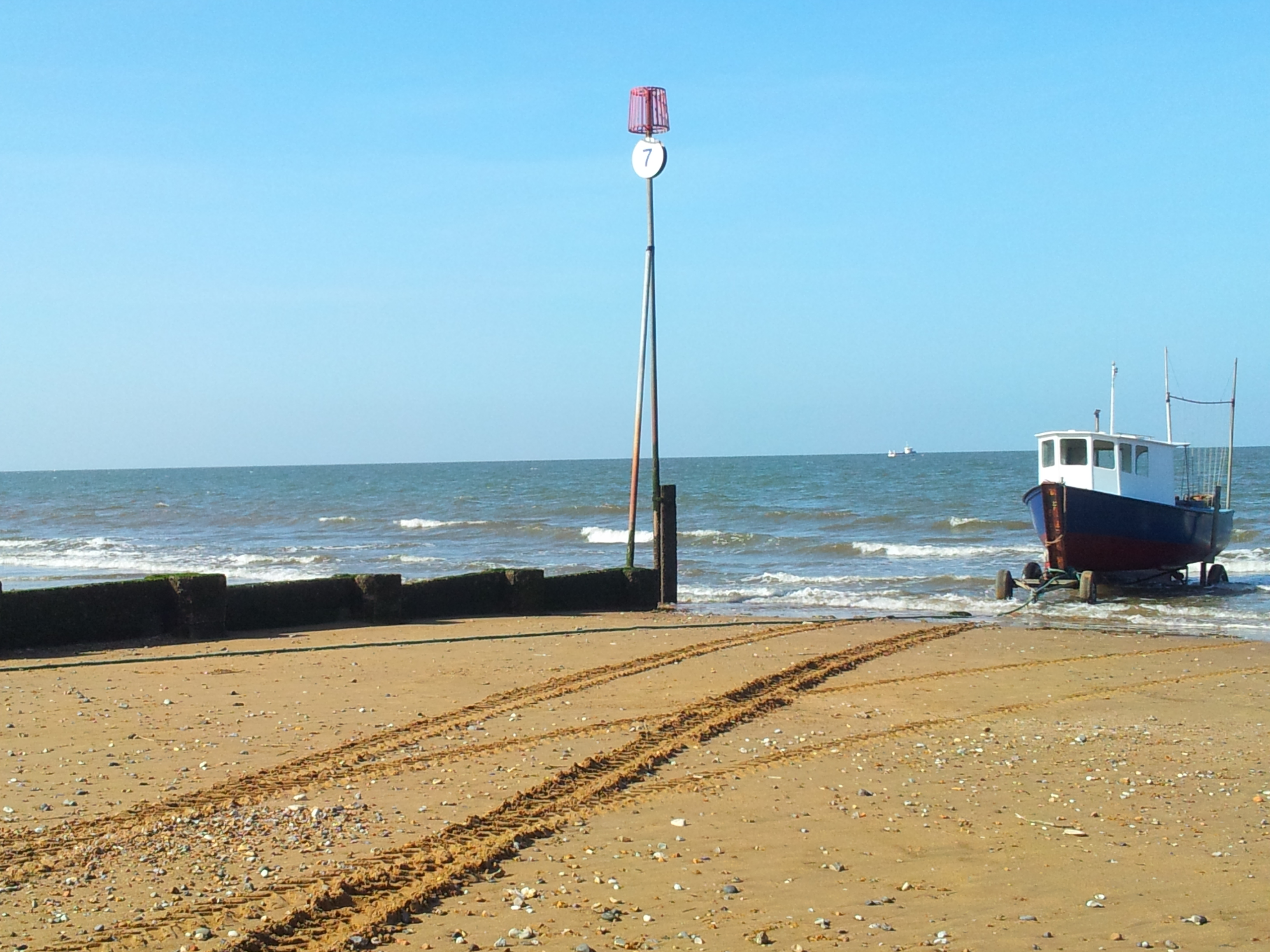 Boat on the Wash at Hunstanton